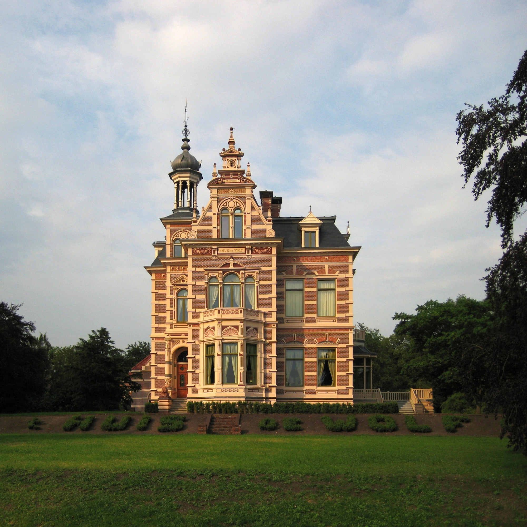 't Huis de Wolf (1892), a villa in Haren, a village in the Dutch province of Groningen.